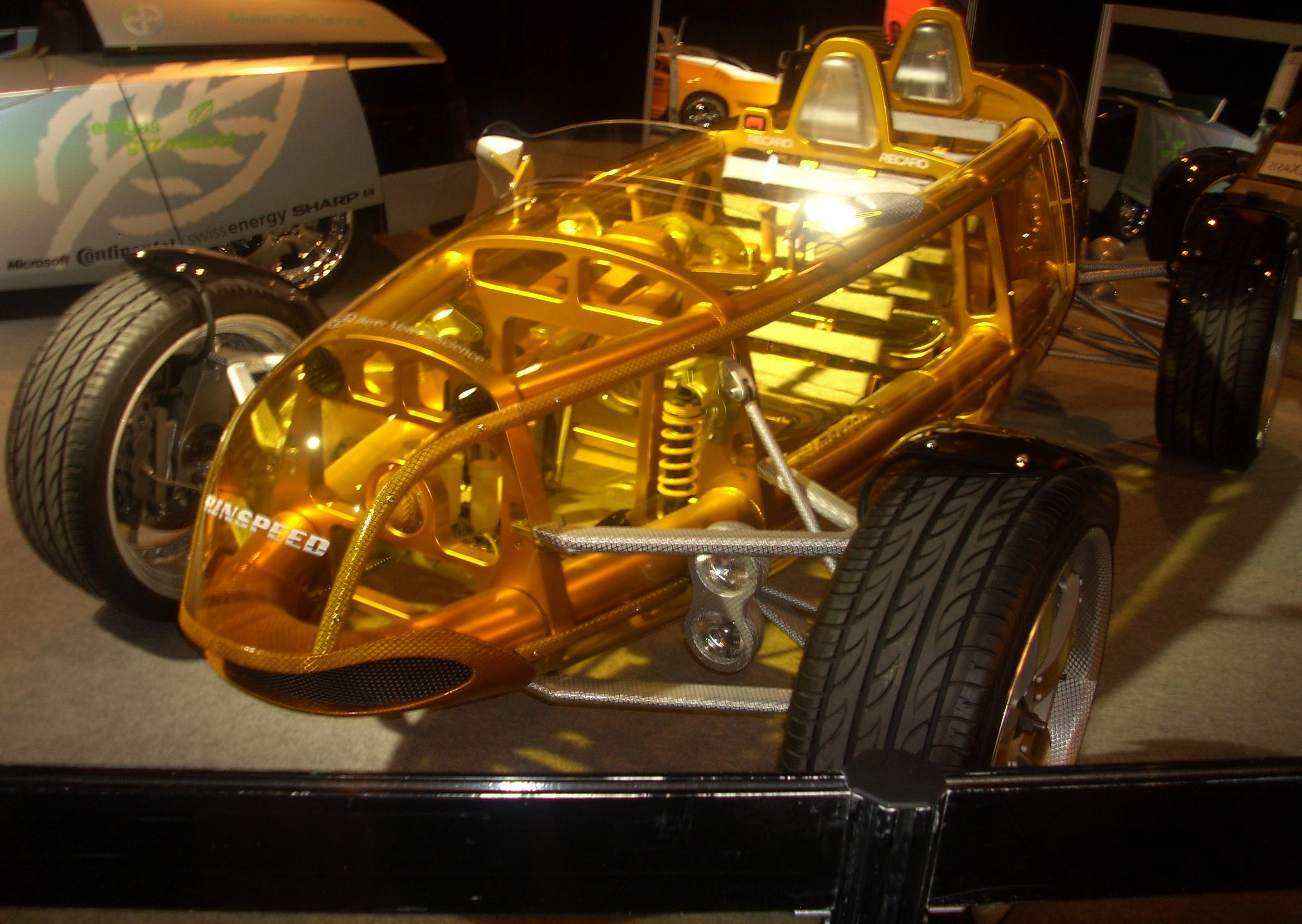 Rinspeed Exasis photographed at the 2009 Montreal International Auto Show.